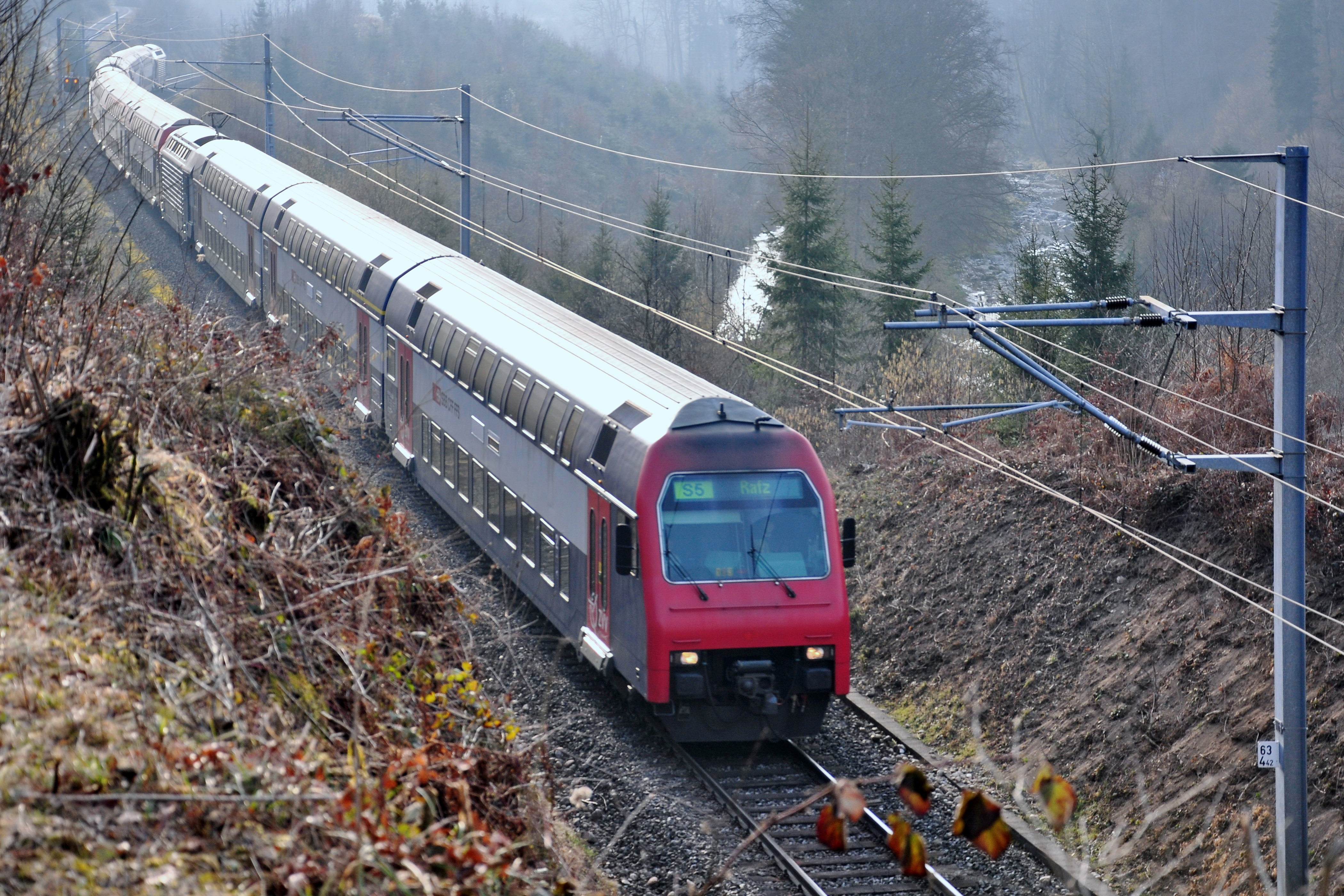 S5 line of the S-Bahn Zürich towards Rapperswil, as seen from Aspwald in Jona (Switzerland).